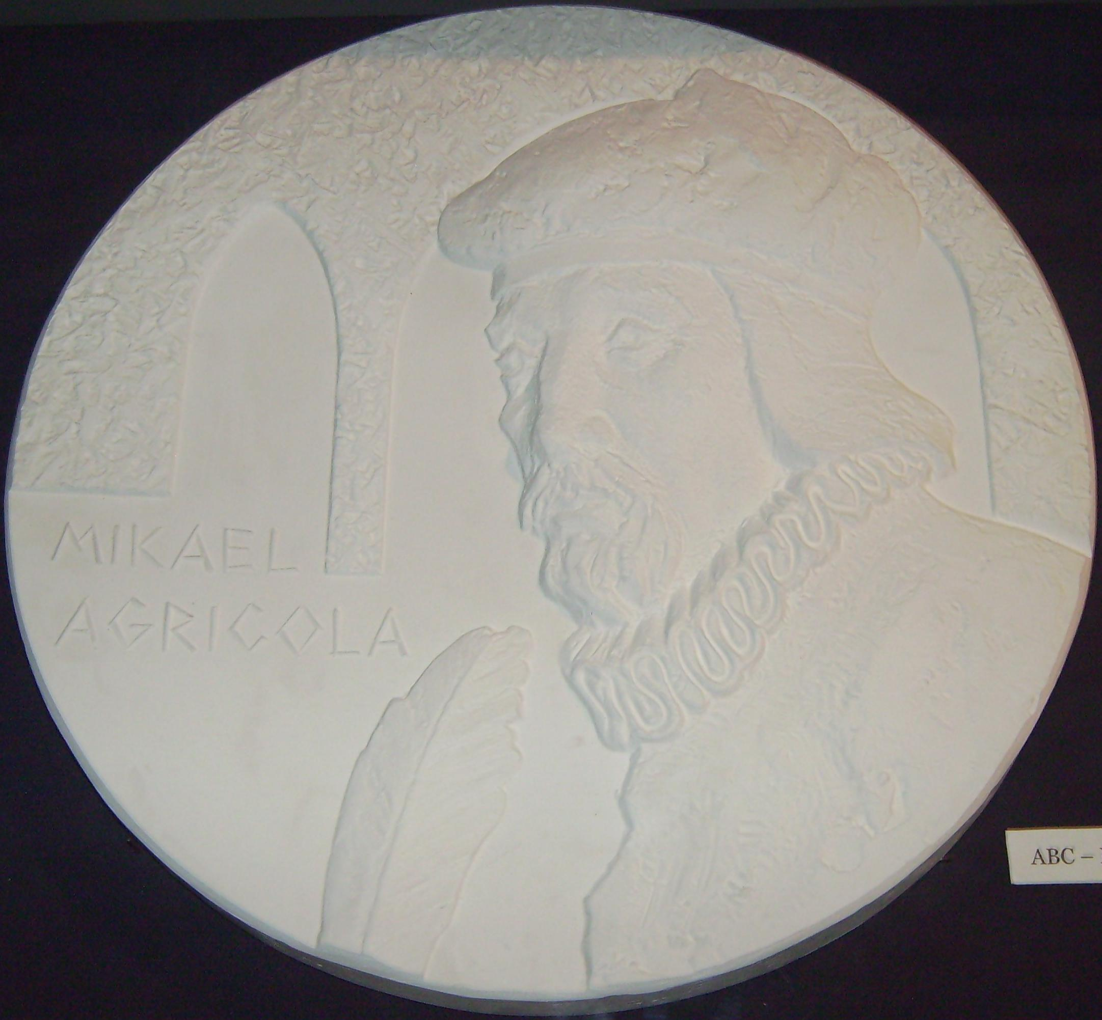 A relief of Mikael Agricola in Cathedral of Åbo, Finland.